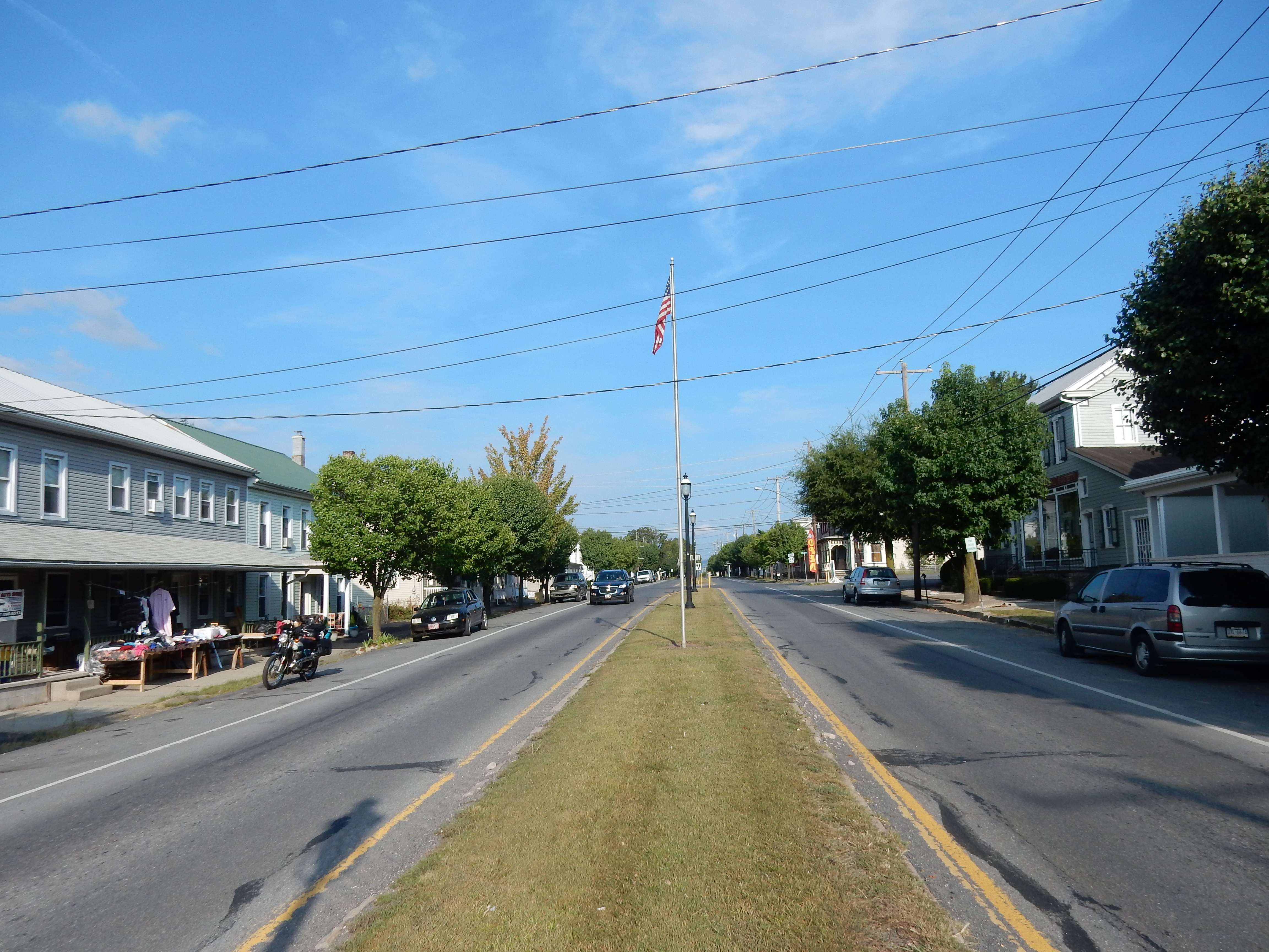 View of Market St., Gratz, Dauphin County, Pennsylvania. Looking east.